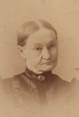 Markle's great great great grandmother, New Hampshire landowner, Mary Hussey Smith (1823- 1908)